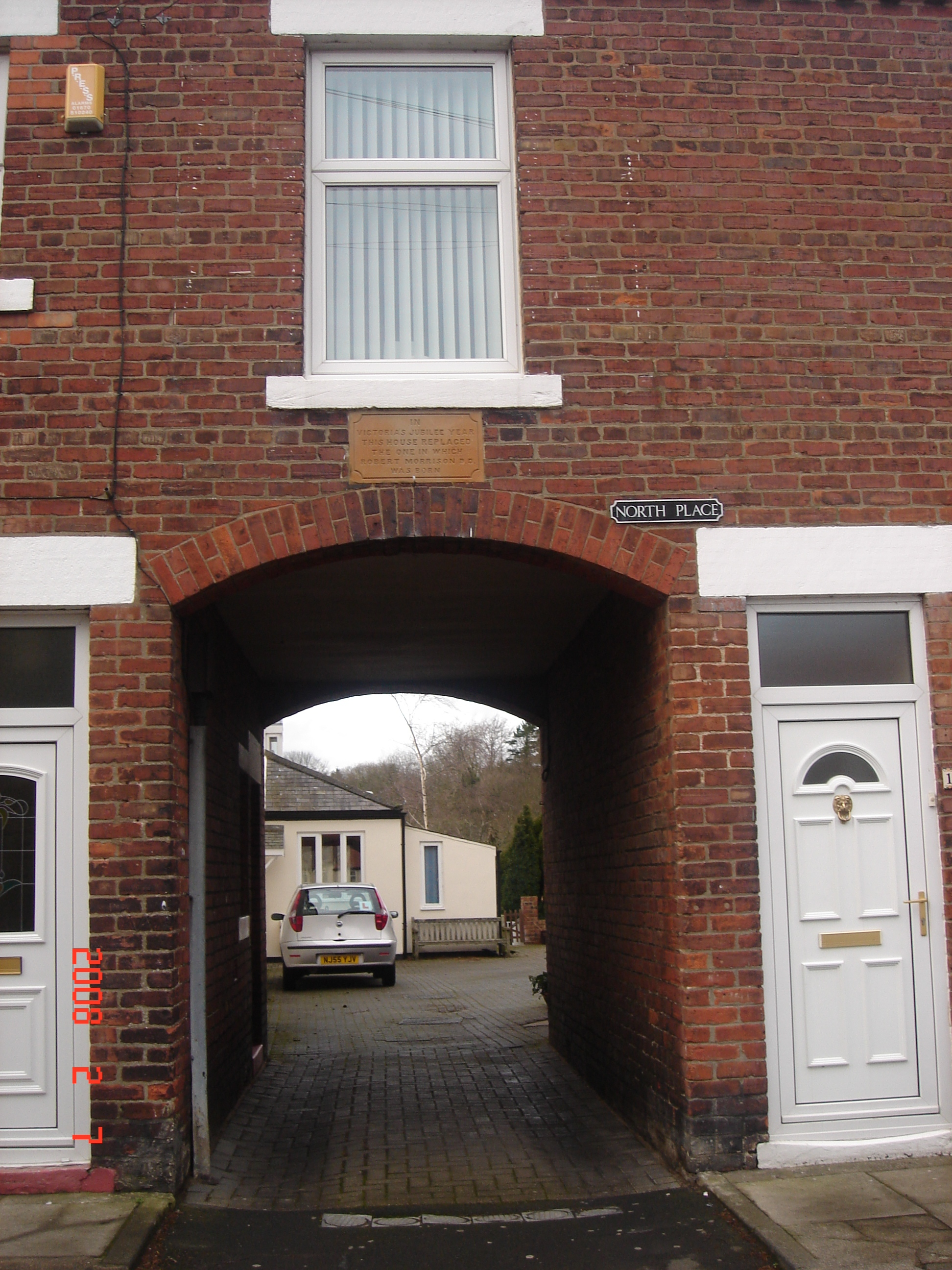 Robert Morrison Birth Place - Bullers Green in Morpeth Northumberland England